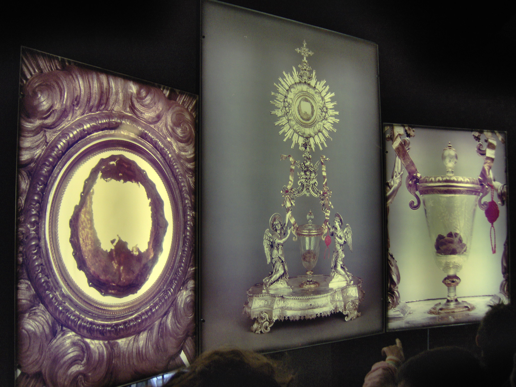 Eucharistic Miracle of Lanciano - rear-lighted panel - side.JPG Made by myself. The panel is public for all visitors.